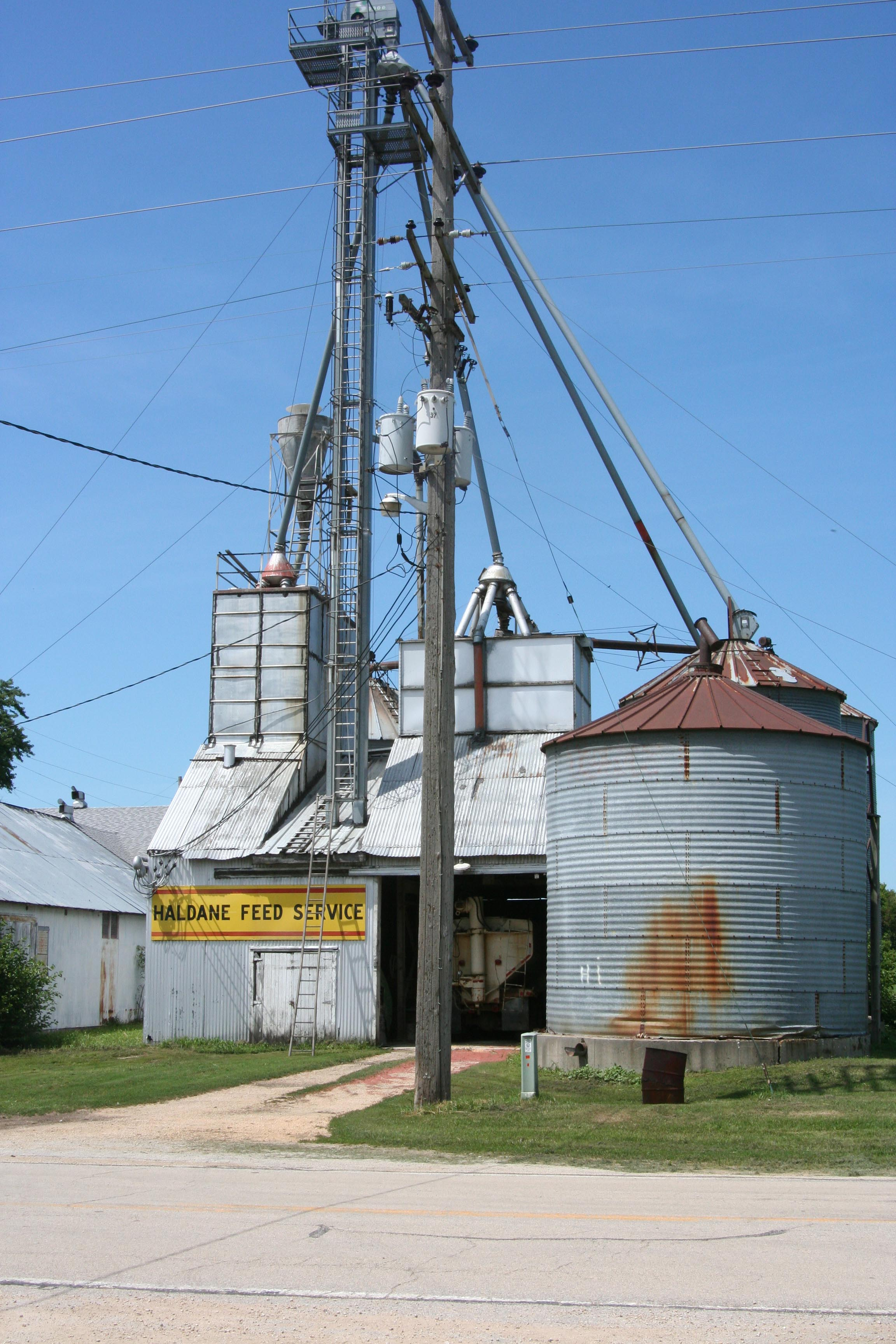 Old feed store in Haldane, Illinois, USA.